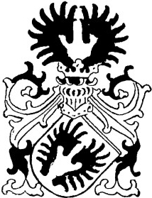 Wappen Etzbach This file depicts the coat of arms of a German Körperschaft des öffentlichen Rechts (corporation governed by public law). According to § 5 Abs. 1 of the German Copyright law, official works like coats of arms are in the public domain. Note: The usage of coats of arms is governed by legal restrictions, independent of the copyright status of the depiction shown here.